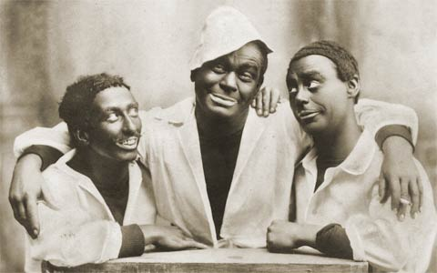 The comedian and actor Johnny Danvers (1860-1939) centre while performing with the Moore & Burgess Minstrels c1901